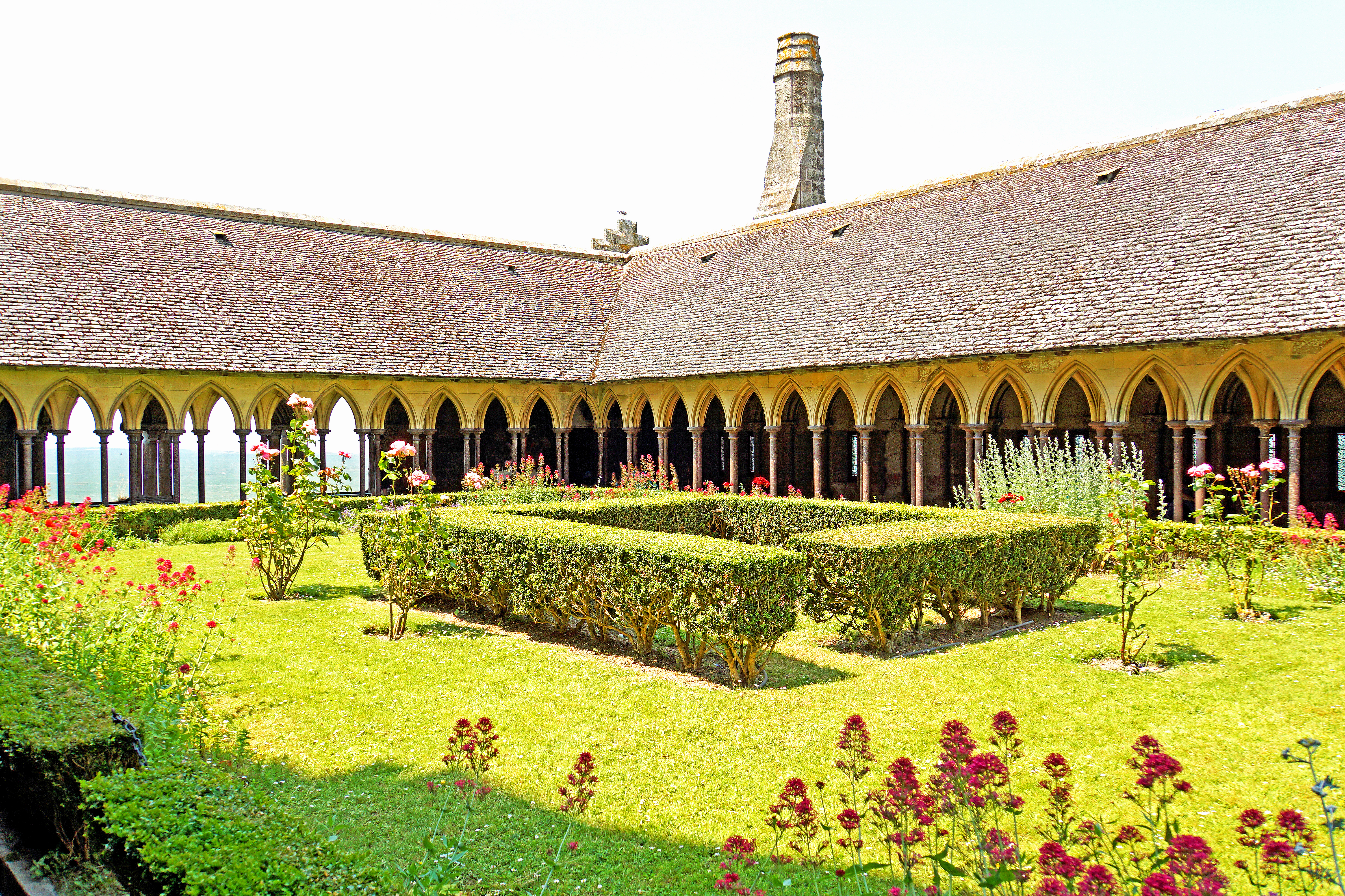 PLEASE, NO invitations or self promotions, THEY WILL BE DELETED. My photos are FREE to use, just give me credit and it would be nice if you let me know, thanks. Contrary to the tradition, this cloister was not built at the centre of the monastery, and thus does not link with all the other buildings. Its function was purely spiritual: to bring the monks to meditate. A medieval garden recreated in 1966 by brother Bruno de Senneville, a Benedict monk. The centre is made of box tree surrounded by 13 Damascus roses.